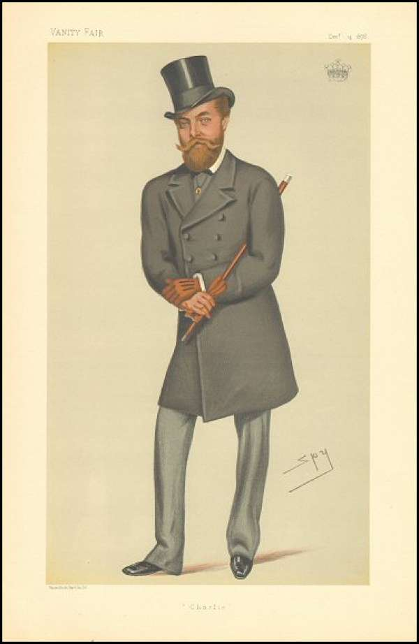 Statesmen No.289: Caricature of The Earl of Dunmore. Caption reads: "Charlie"